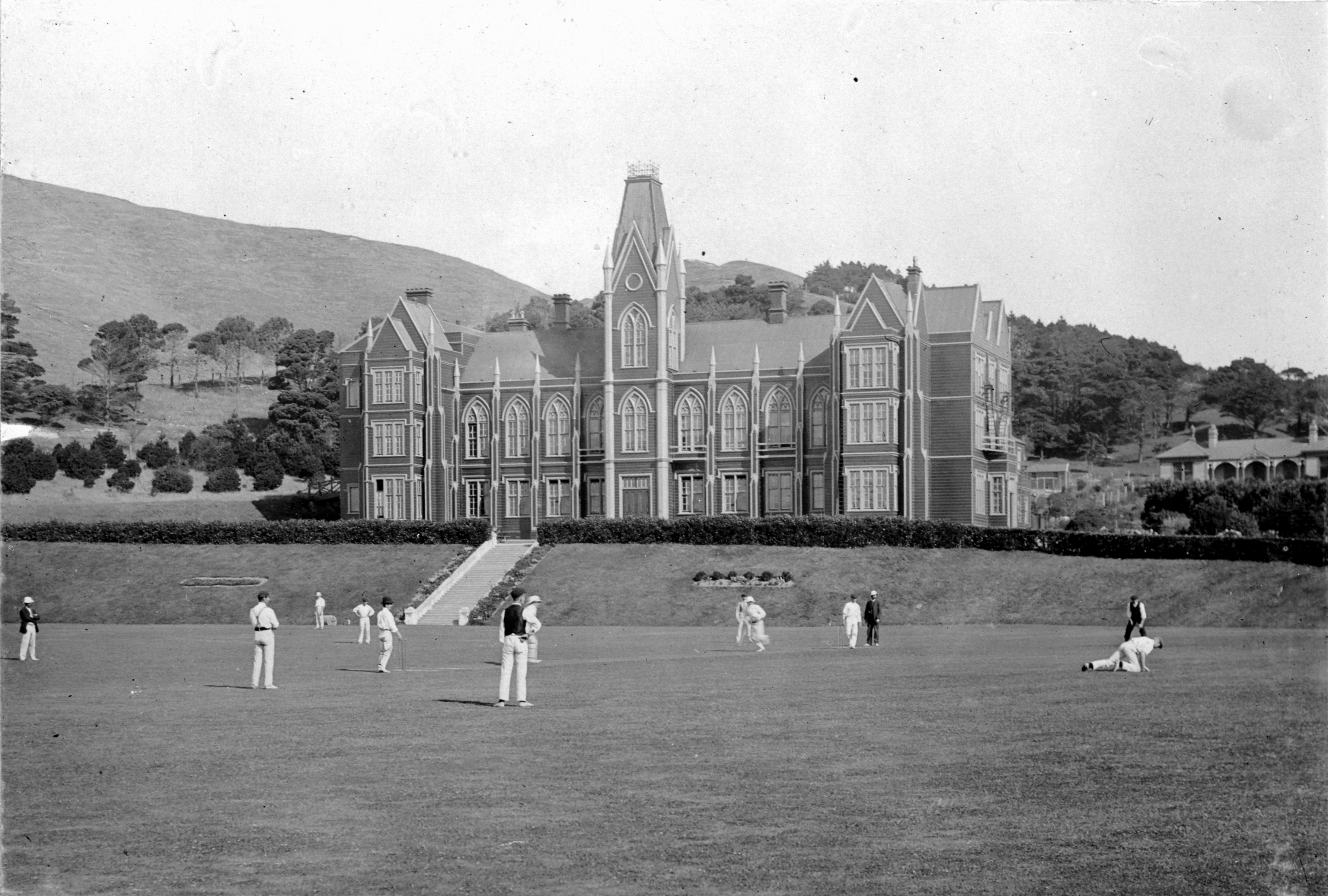 Wellington College with cricket game in progress, [ca 1900] Reference Number: 1/2-106902-F Unidentified photographer Original negative Photographic Archive, Alexander Turnbull Library Find out more about this image on our Manuscripts + Pictorial website